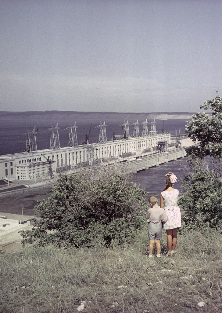 “Volzhskaya hydropower plant”. View of the V.I.Lenin Volzhskaya hydroelectric power plant (Now the Zhigulevskaya hydropower plant) from the Zhiguli mountains.